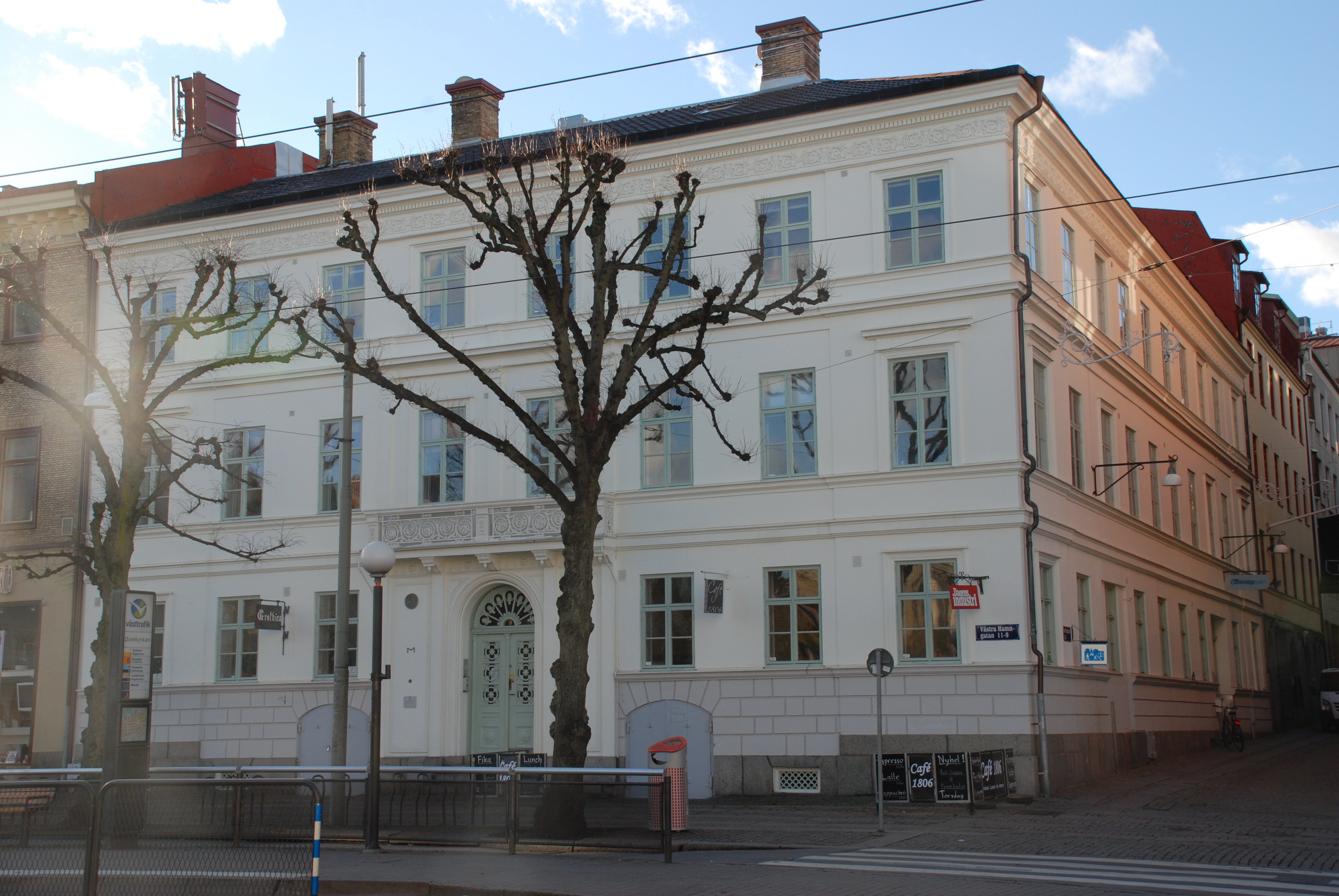 Renströmska huset, Västra Hamngatan 9 in Göteborg